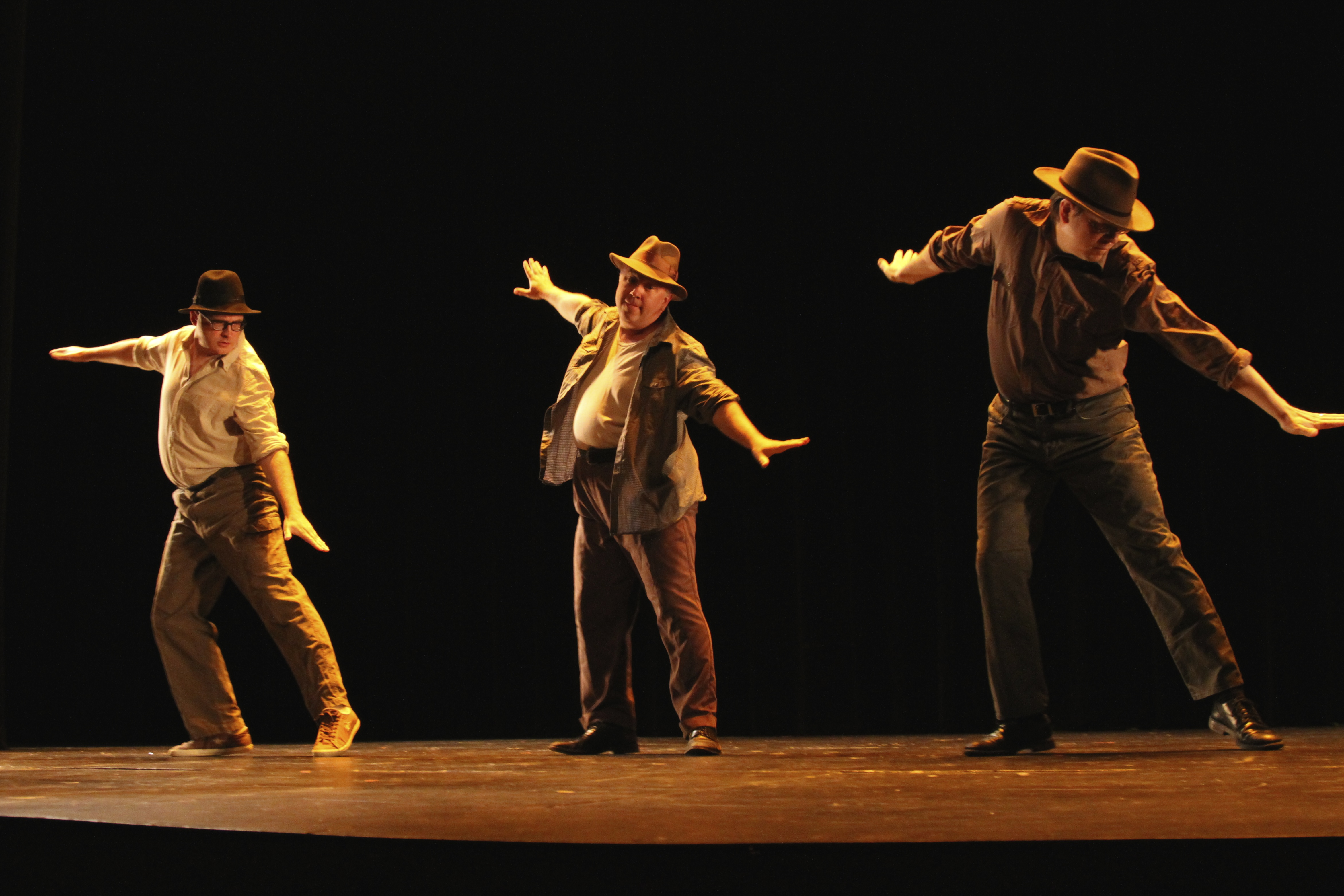 Jumpin' Jack Kerouac presented by Eclectic Otter Productions at U of M Rarig Center Proscenium. Part of the Minnesota Fringe Festival. Pictured left to right are Kelvin Hatle, Tim Uren, and Tim Wick.